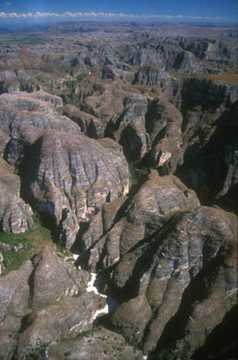 The most remote and unexplored range in Madagascar